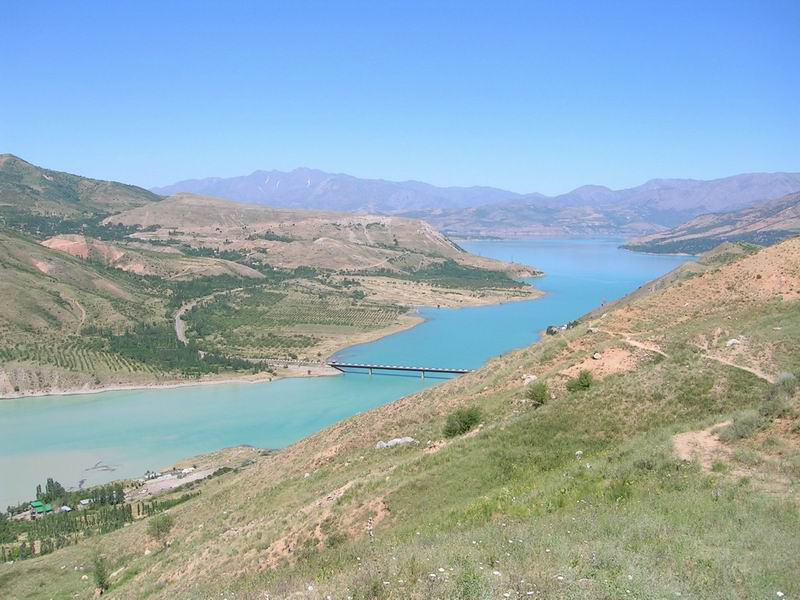 Chatkal river near Charvak lake (Uzbek: Chorvoq).